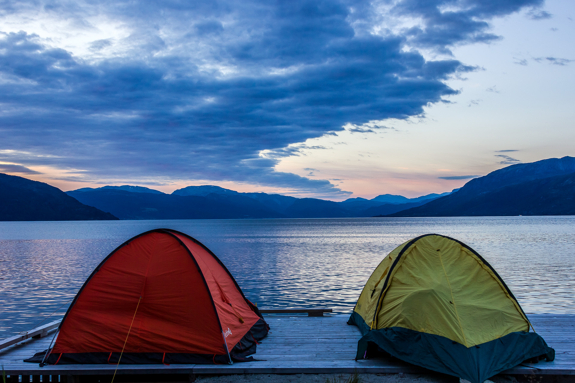 TrailTrolls